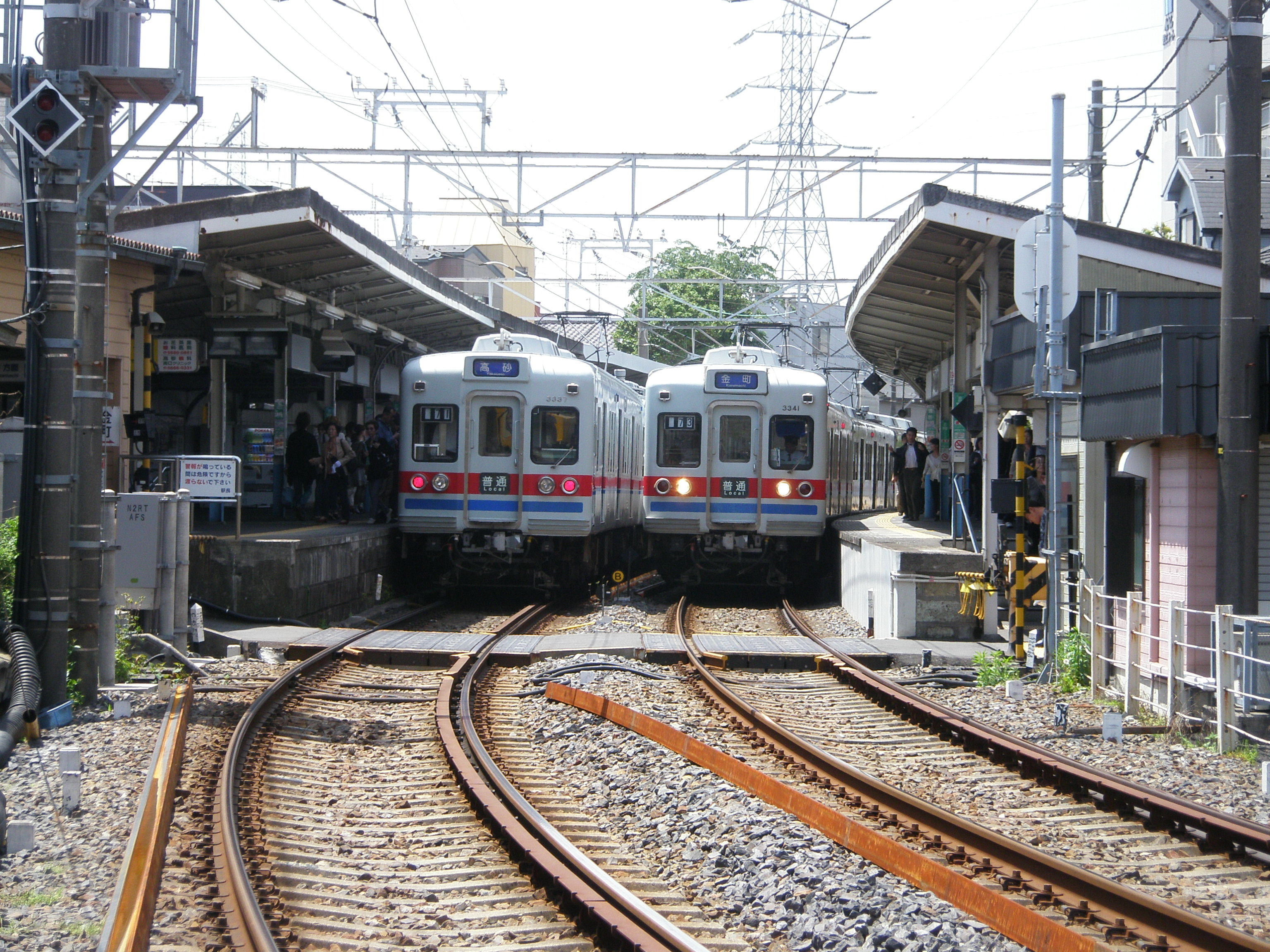 The platforms at Shibamata Station, on Keisei-Kanamachi Line, in Katsushika city, Tokyo.